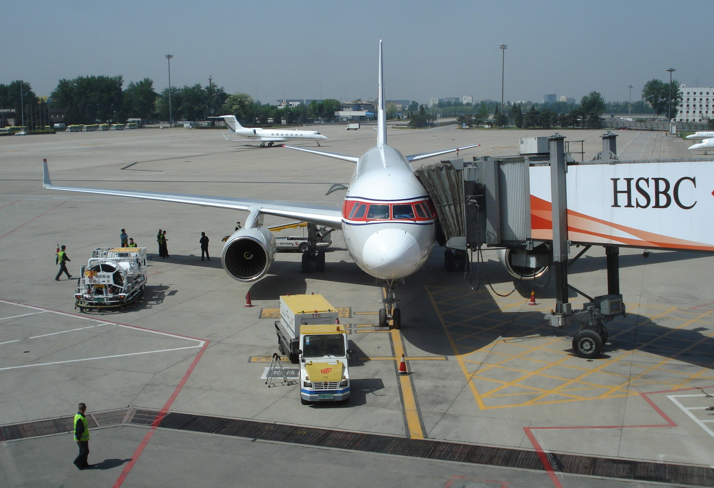 Air Koryo Tu-204 in Beijing, PR China.